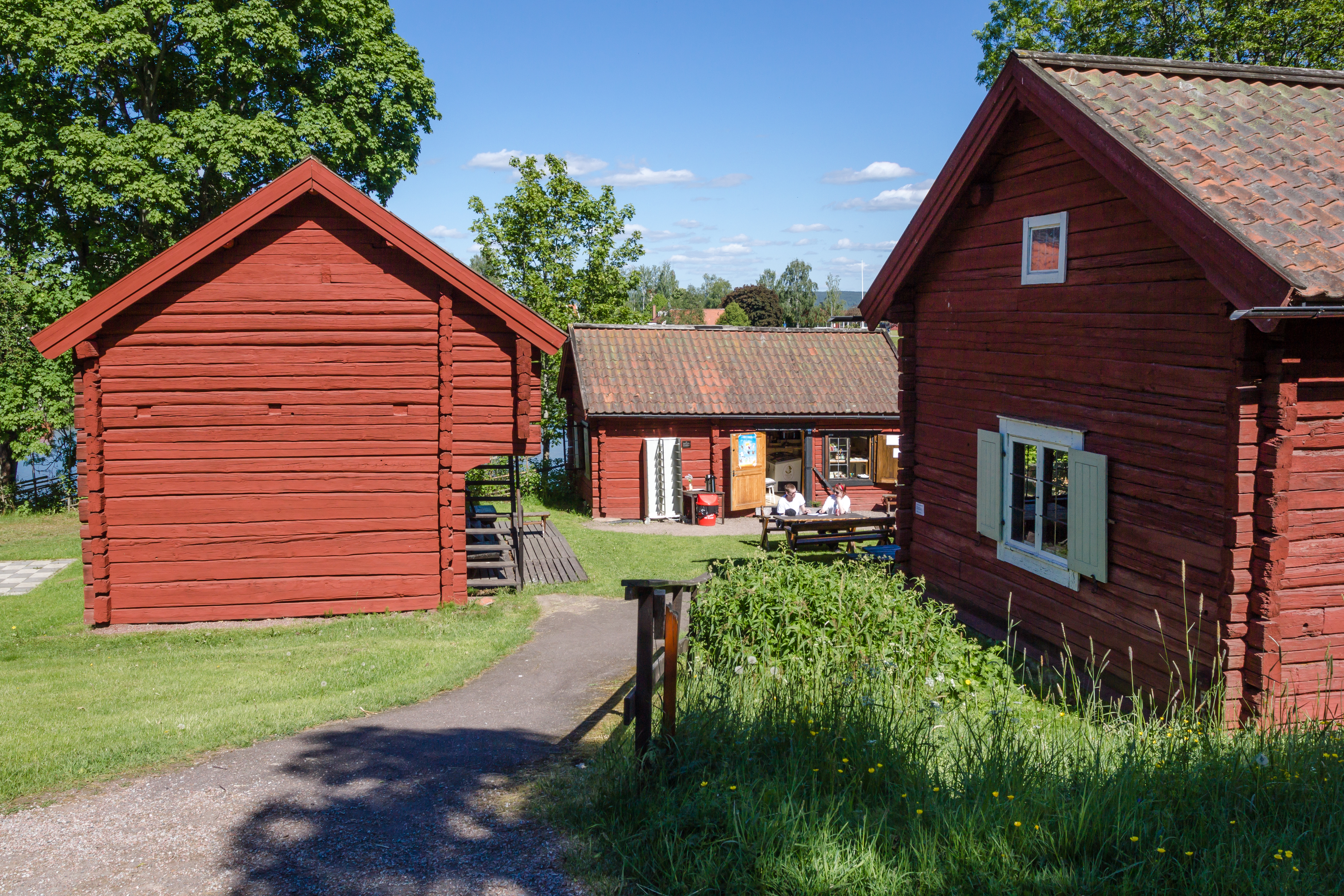 Hedemora gammelgård buildings loftboden, sterset and Storstugan.